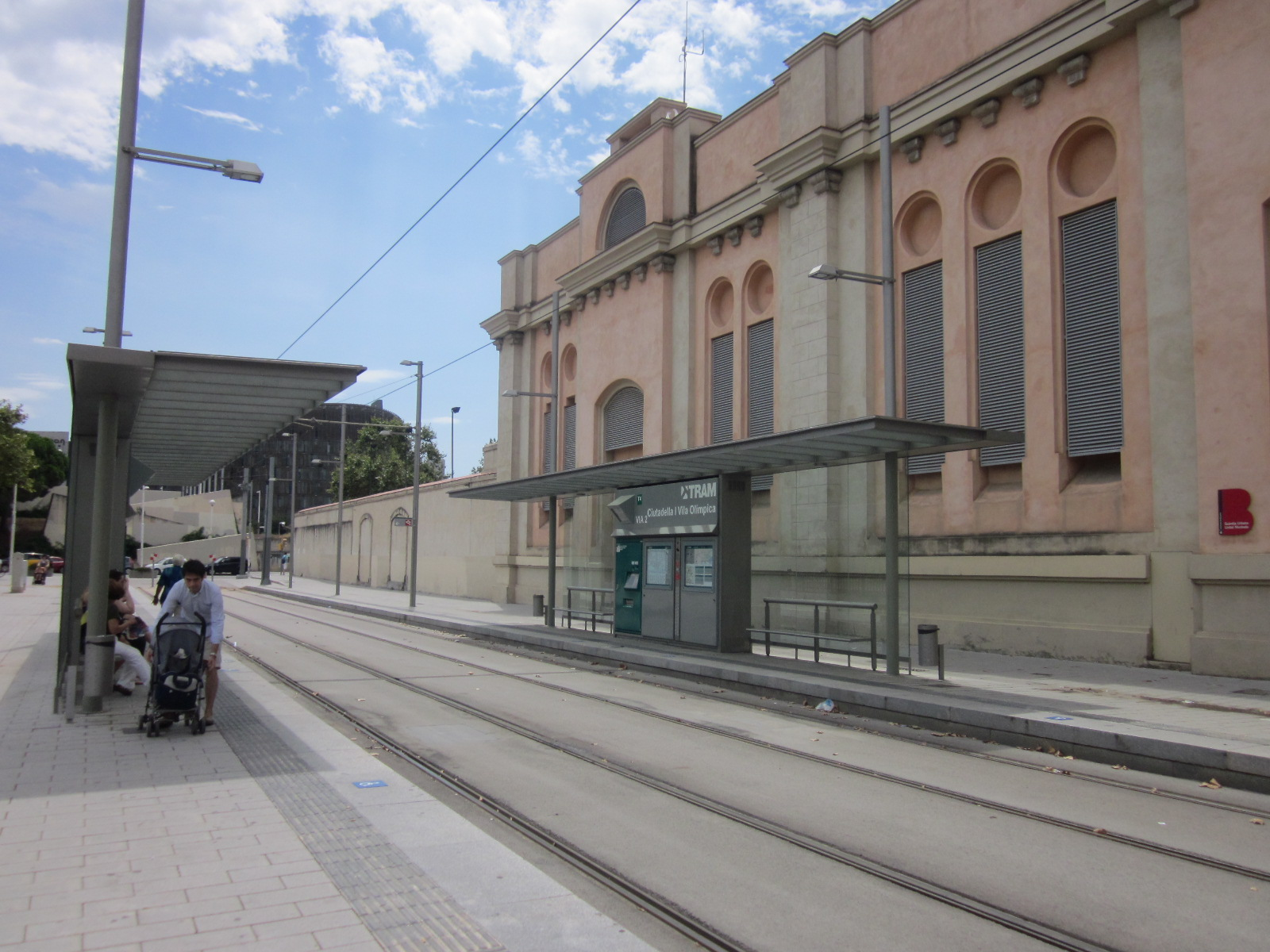 Ciutadella - Vila Olímpica Trambesòs stop (Barcelona)